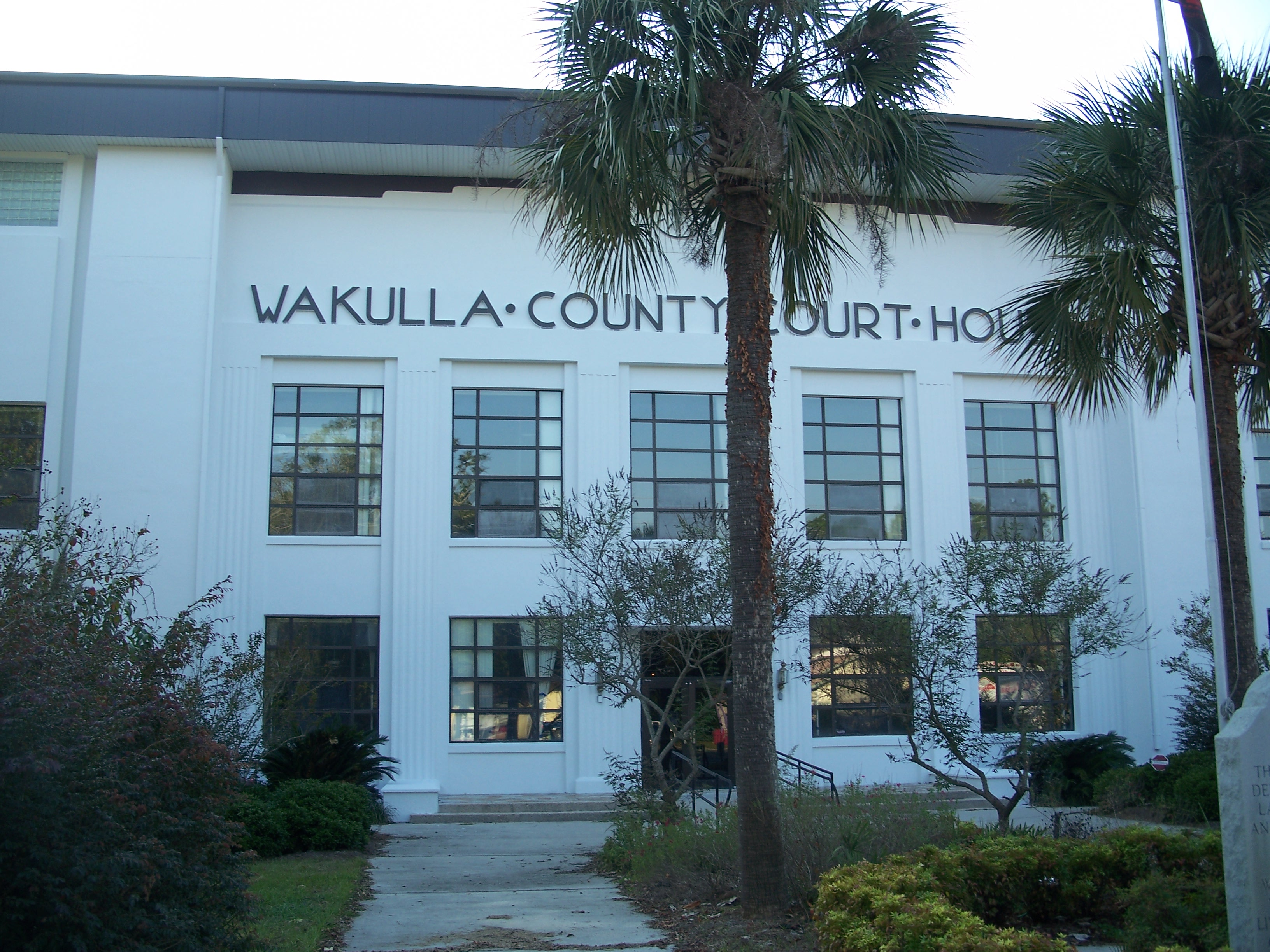 Crawfordville, Florida: Current courthouse